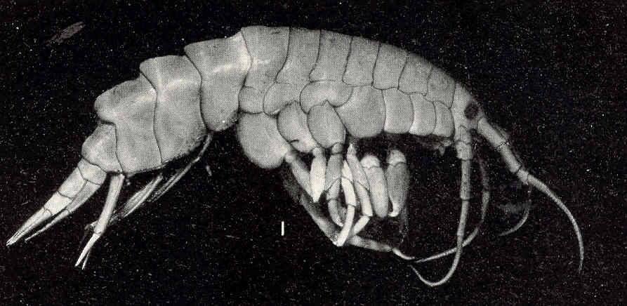 Calliopius laeviusculus. Vineyard Sound Subject: Amphipoda, Calliopius laeviusculus Tag: Invertebrates